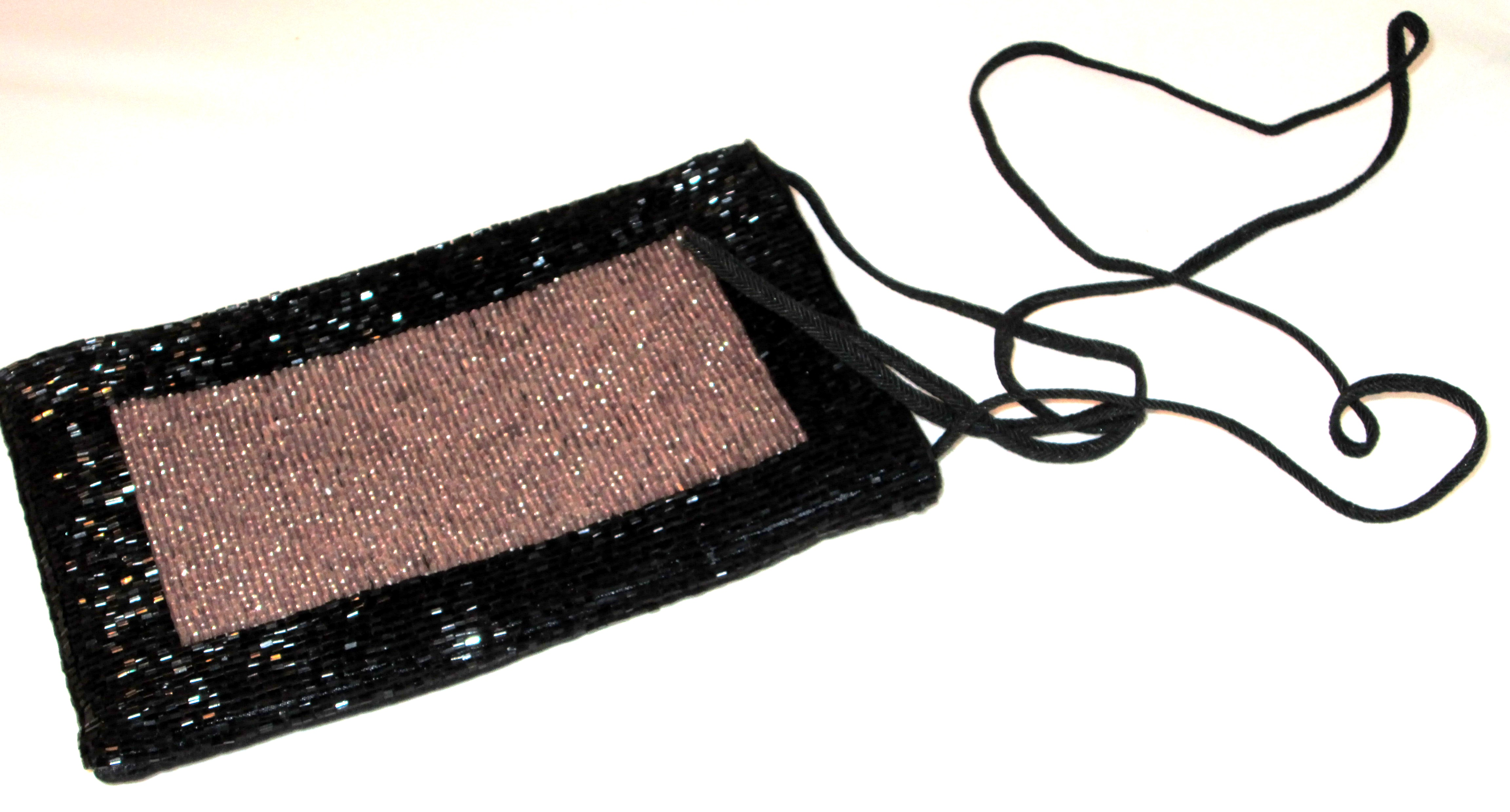 cell phone case- Pouch- iPurse